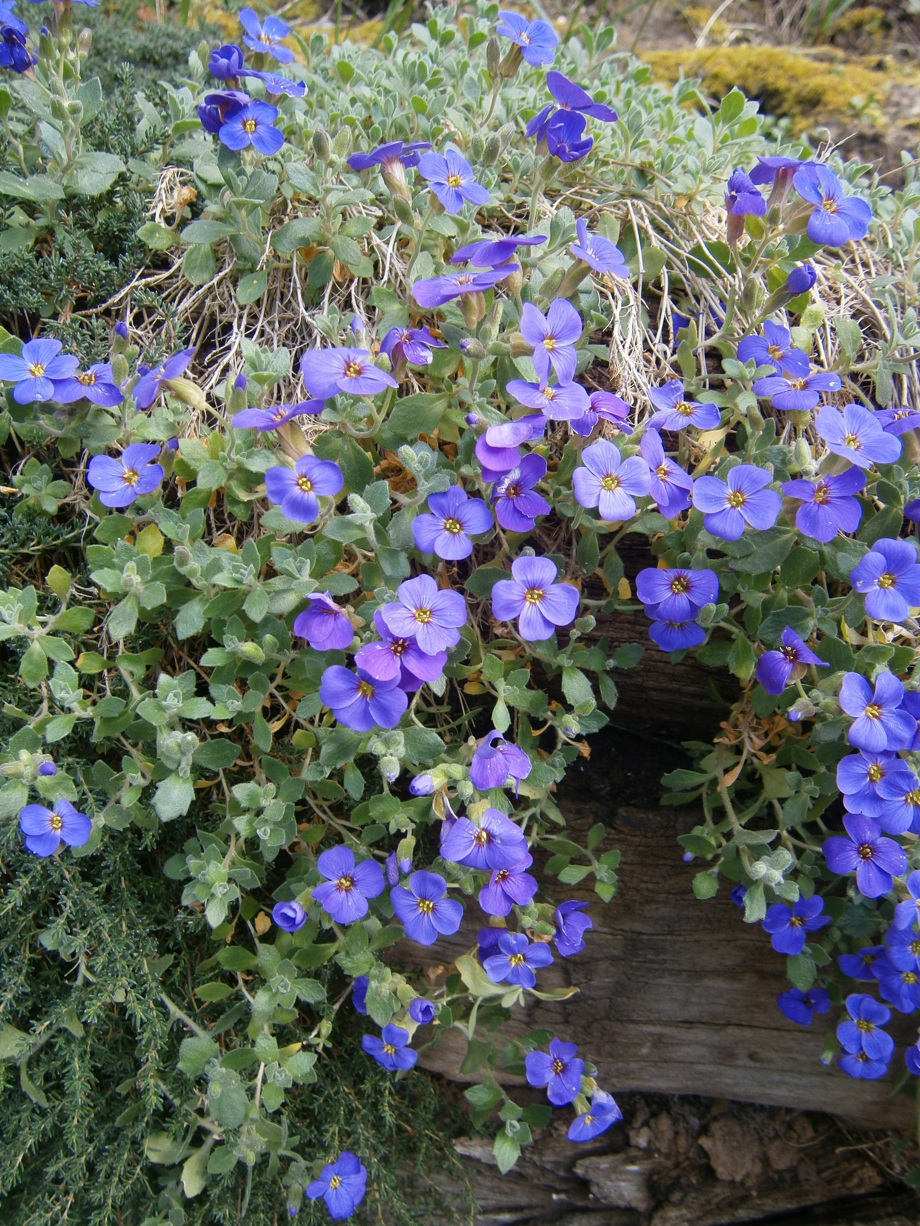 Aubrieta deltoidea